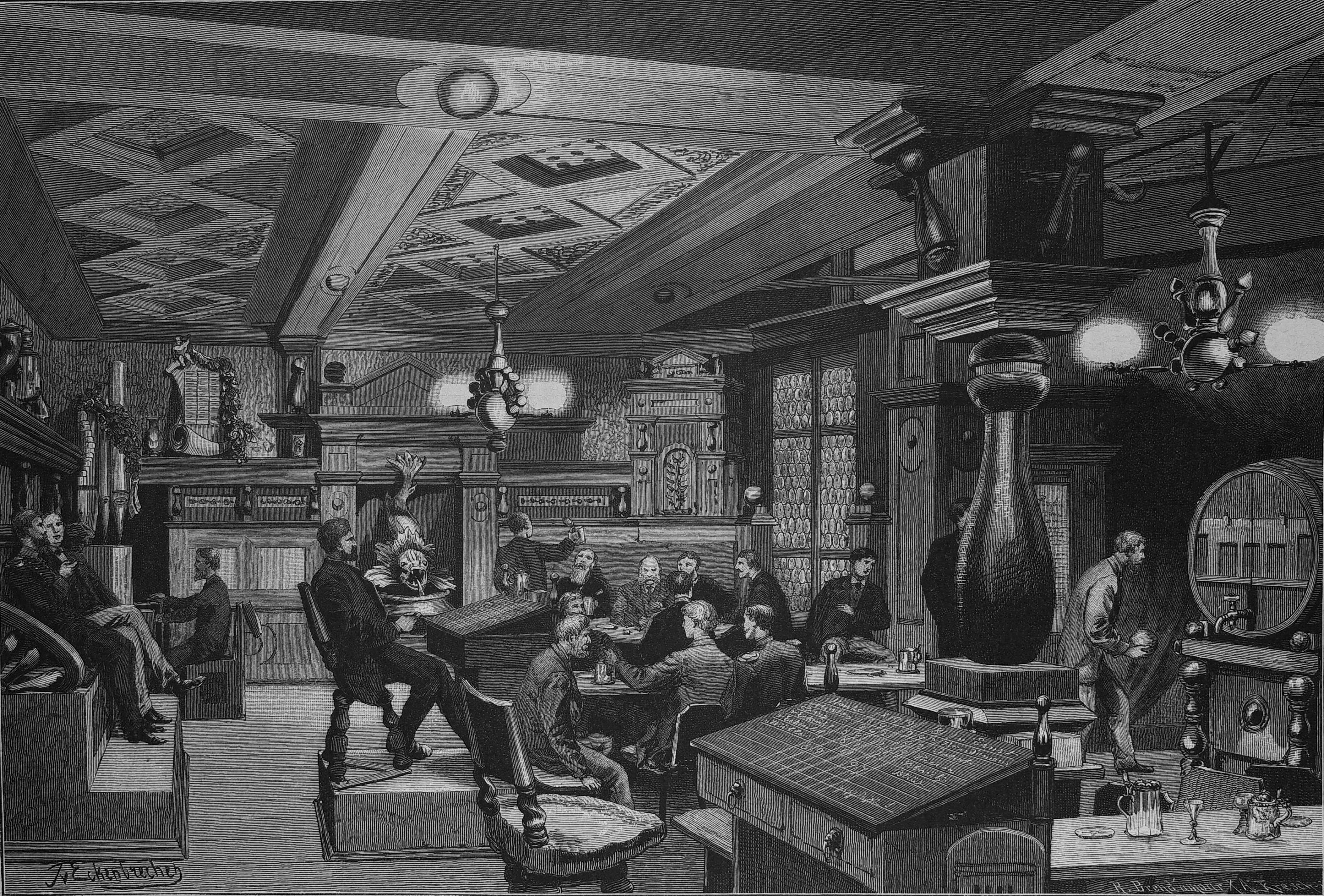 caption: "Auf der Kegelbahn des „Malkastens“ in Düsseldorf. Originalzeichnung von Th. von Eckenbrecher."